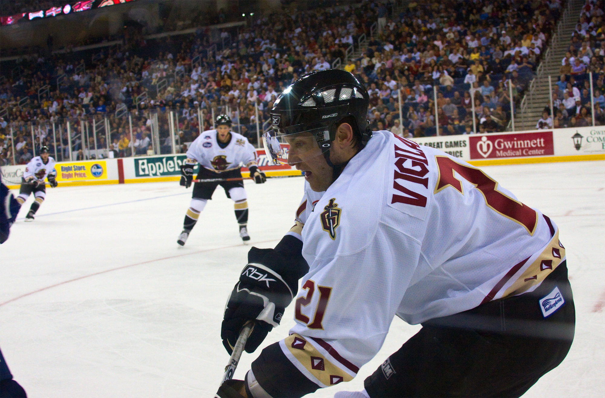 A shot from the stands of a Gwinnett Gladiators vs. Pensacola Ice Pilots game in 2007. Mike Vigilante (#21)